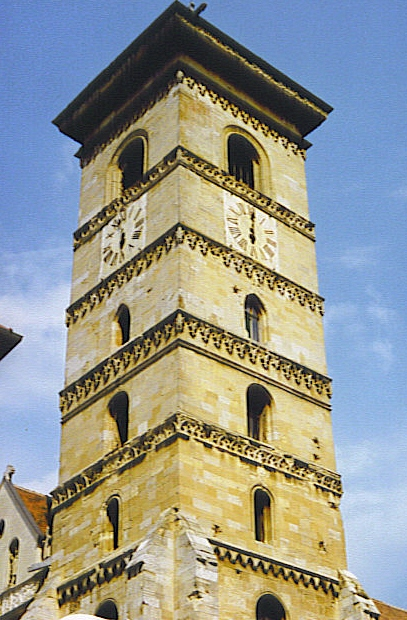 Catholic Cathedral, Alba Iulia (Romania)